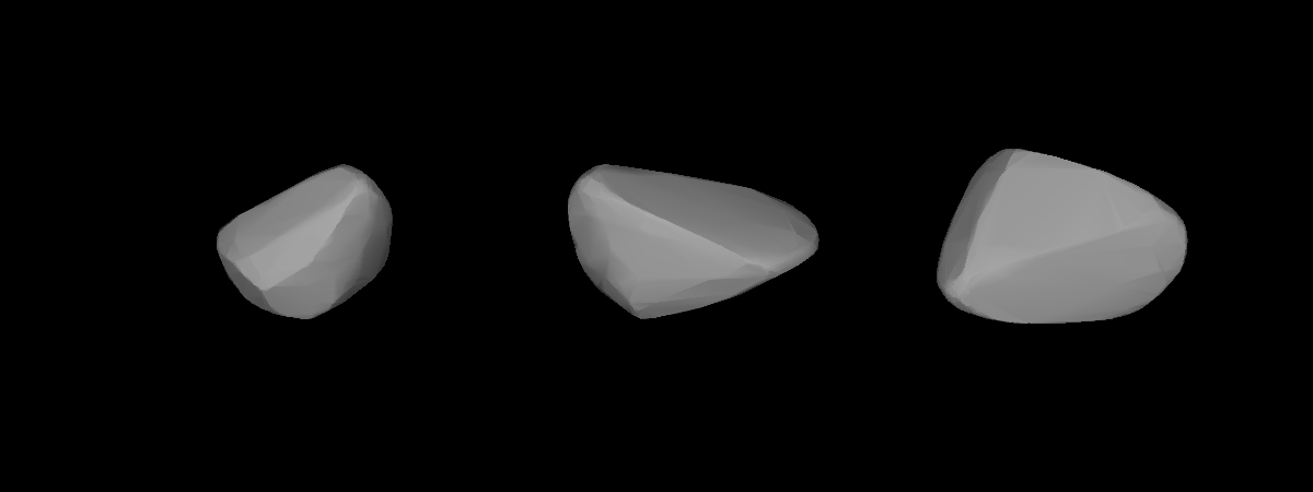 A three-dimensional model of 669 Kypria that was computed using light curve inversion techniques.